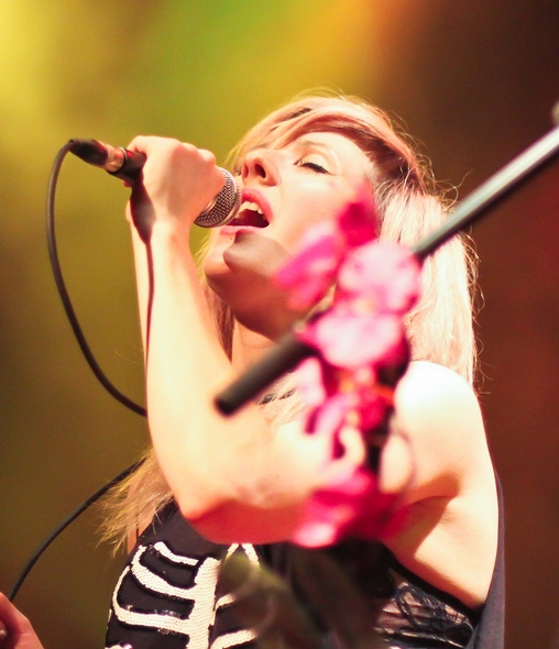 Goulding performing live at The Venue, Vancouver. 10, April 2011.